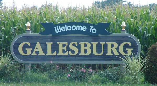 City boundary/welcome sign for Galesburg, Illinois.